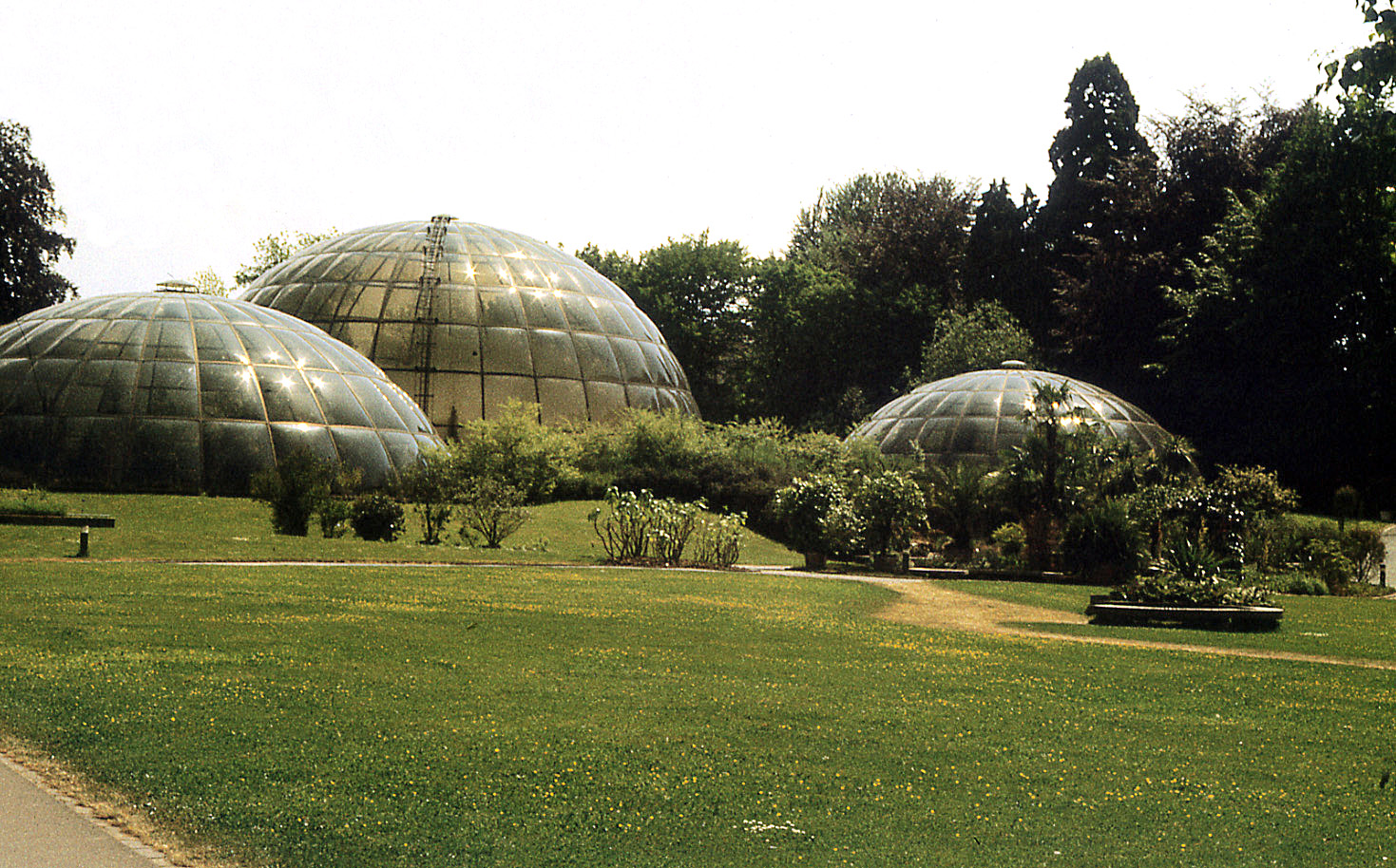 Domes of BOTANISCHER GARTEN DER UNIVERSITAT ZURICH